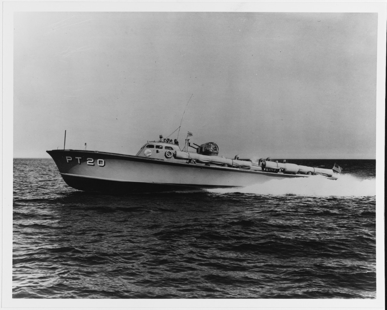 USS PT-20 Underway at high speed, circa 1941. She won the "Plywood Derby" in July 1941, which compared the sea performance of a number of pt boat designs